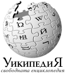 the Bulgarian Wikipedia logo